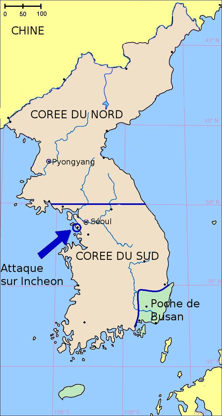 Military situation in Korea - september 1950. UNO and south-korean army control only the Pusan Perimeter, but counter-attack on Incheon.